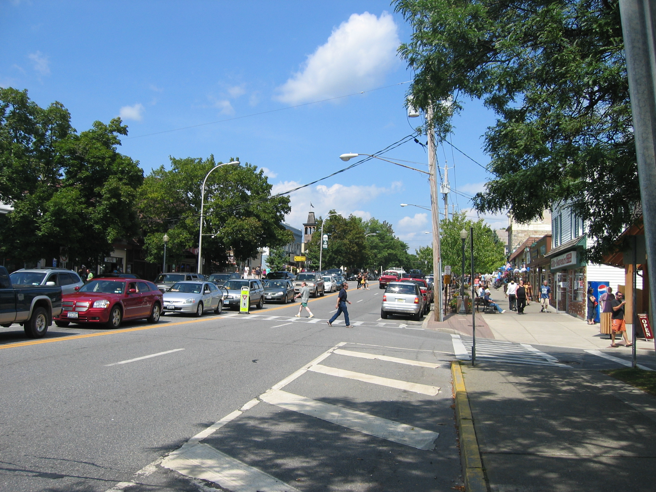 Main Street in the Village of Lake George, New York